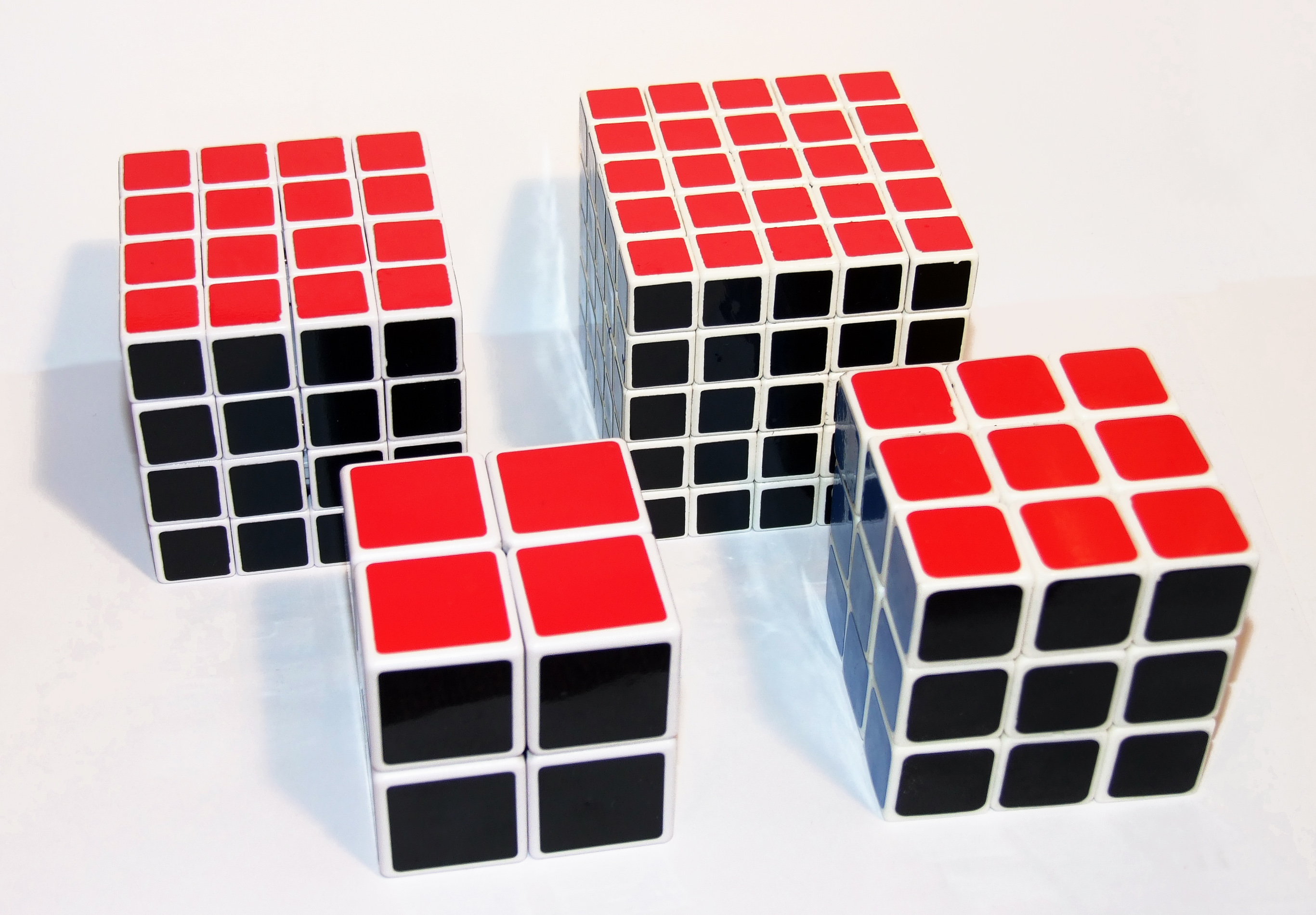 Rubik's cube, variations 2×2×2 - 5×5×5